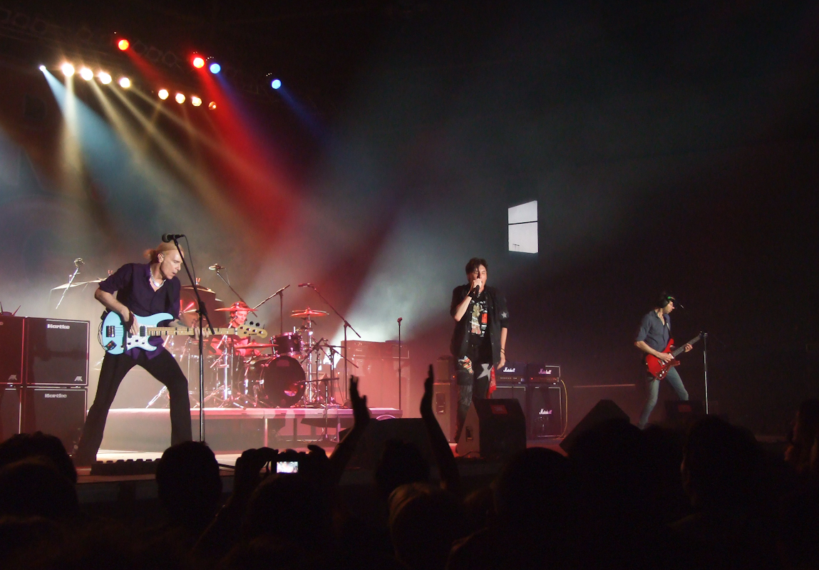 Mr.Big at Festivalna Hall, Sofia, Bulgaria.